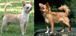 Combined image of a smooth and long coated chihuahua